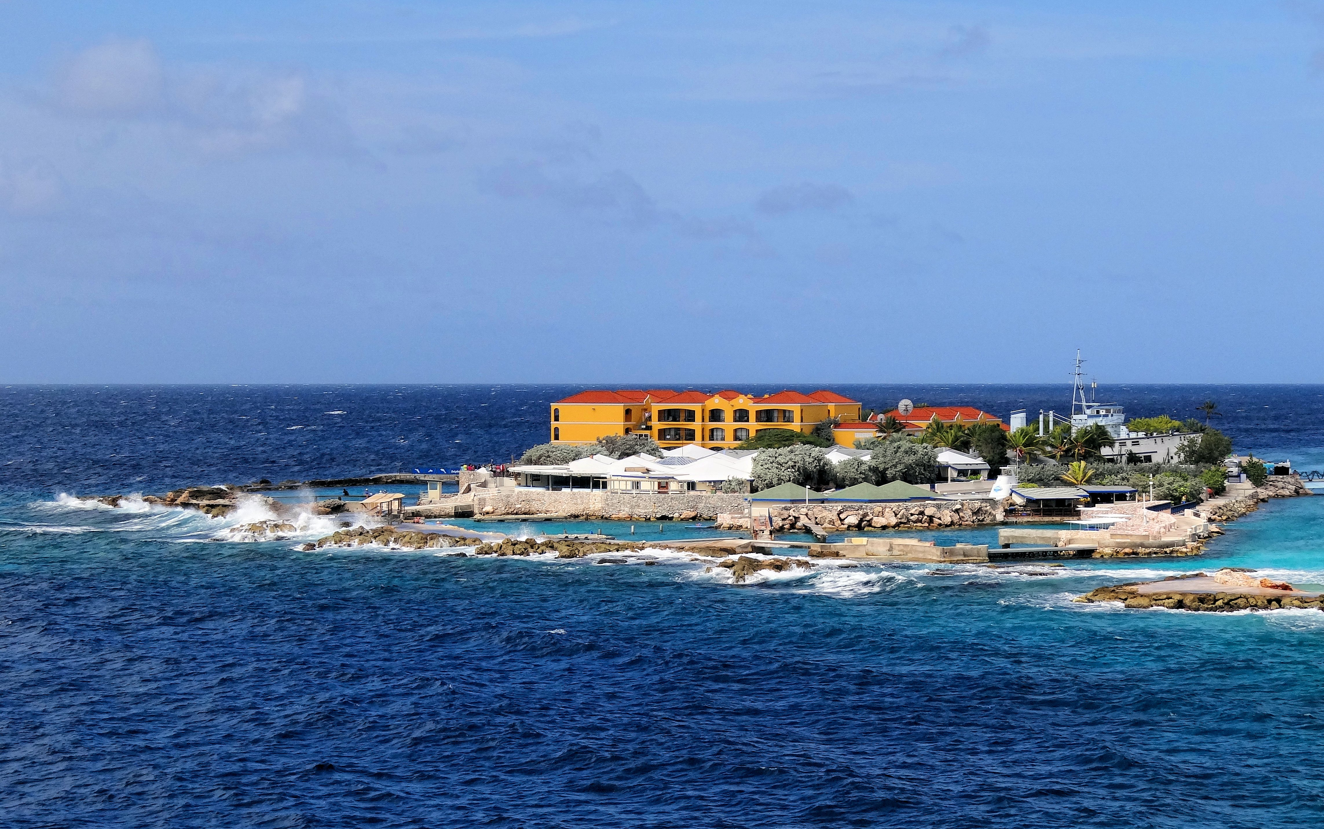 The Curacao Sea Aquarium and the Dolphin Academy share this little islet on the west coast of Curacao.